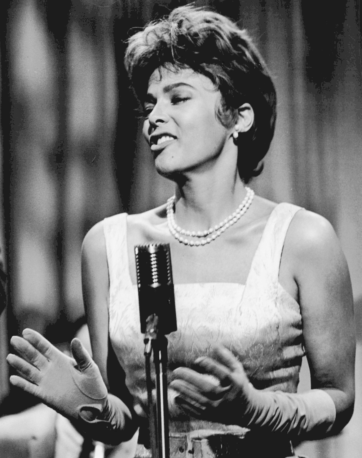 Photo of Dorothy Dandridge in her first dramatic television role as a singer in Cain's Hundred.